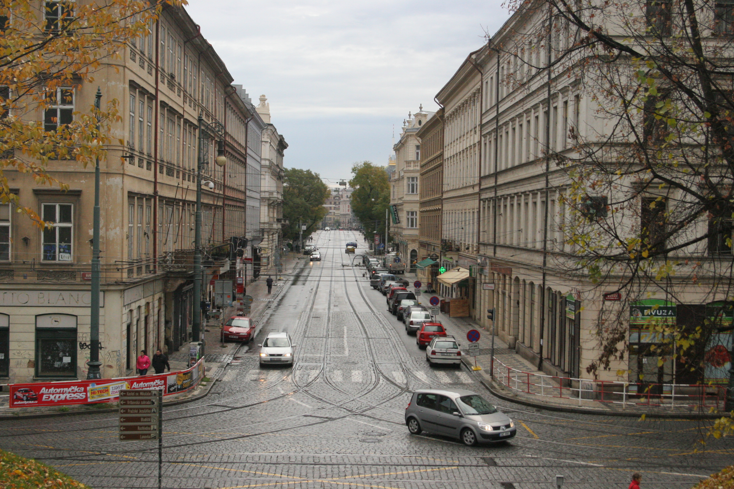 Prague, Czech republic November 2012